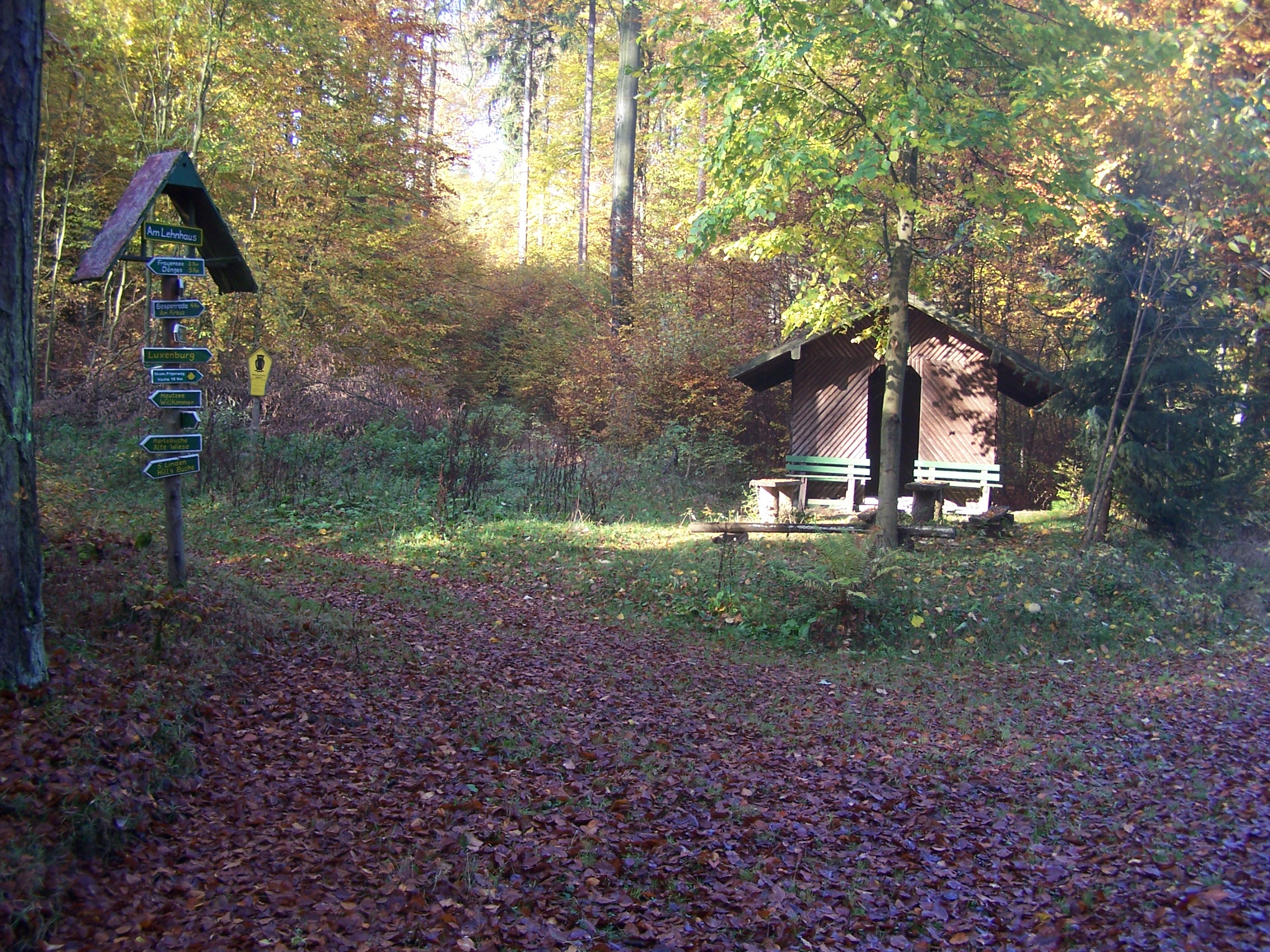 The Lehnhaus is a cossing point in the Frauensee forest.